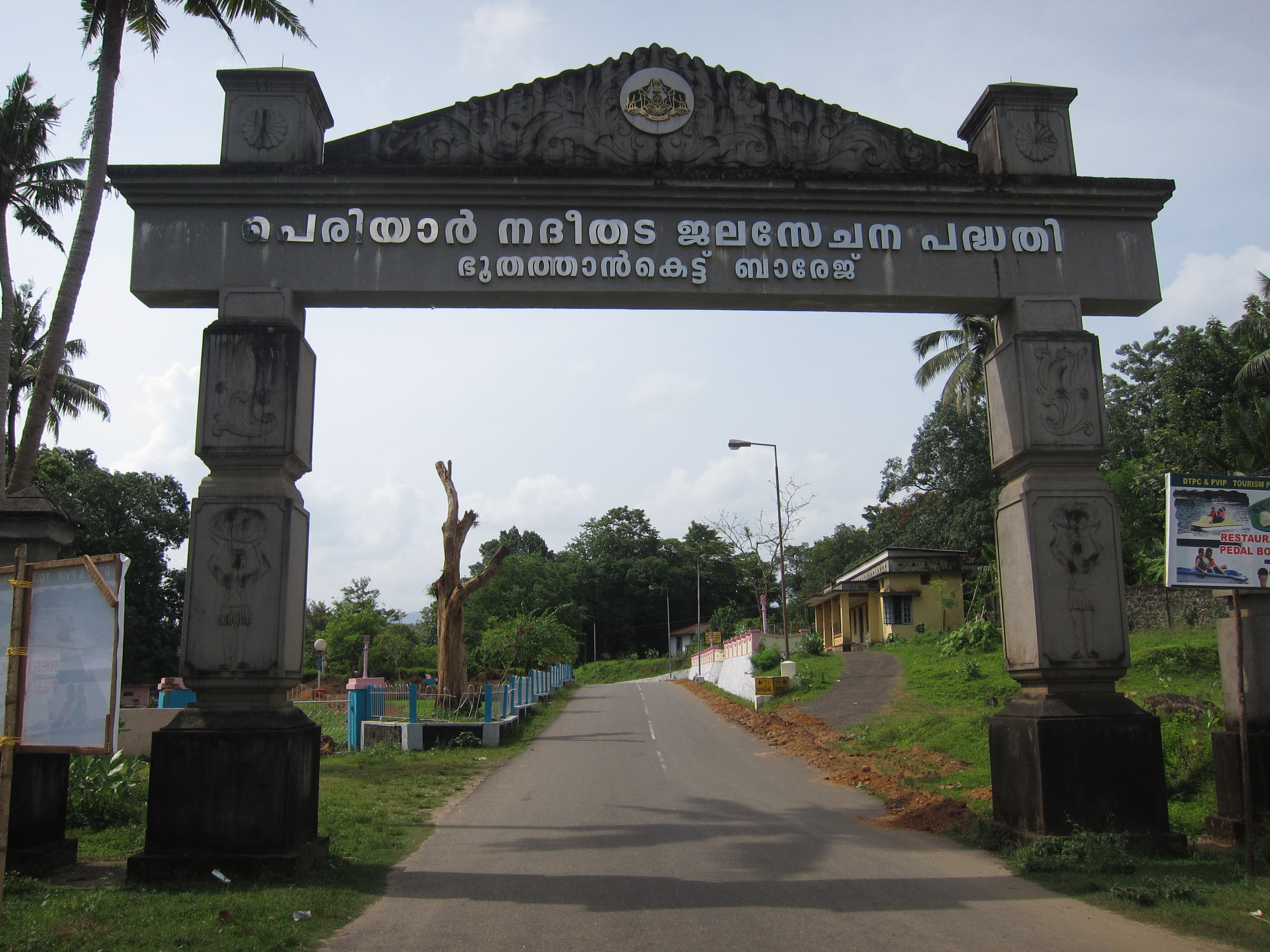 Bhoothathankettu Dam, Ernakulam District, Kothamangalam - Thattekadu Road, 3 k.m away from Keerampara Junction on the way to Idamalayar.